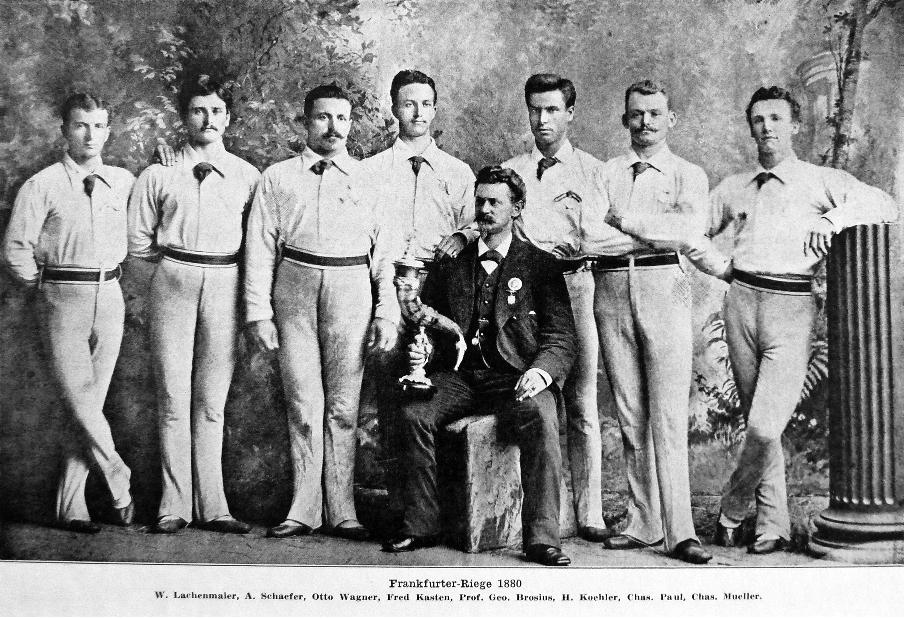 Frankfurt squad 1880. From left to right: Wilhelm Lachenmaier, Anton Schaefer, Otto Wagner, Friedrich (Fred) Kasten, "Prof." George Brosius, Hermann J. Koehler, Carl (Charles) Paul, Carl (Charles) Mueller.